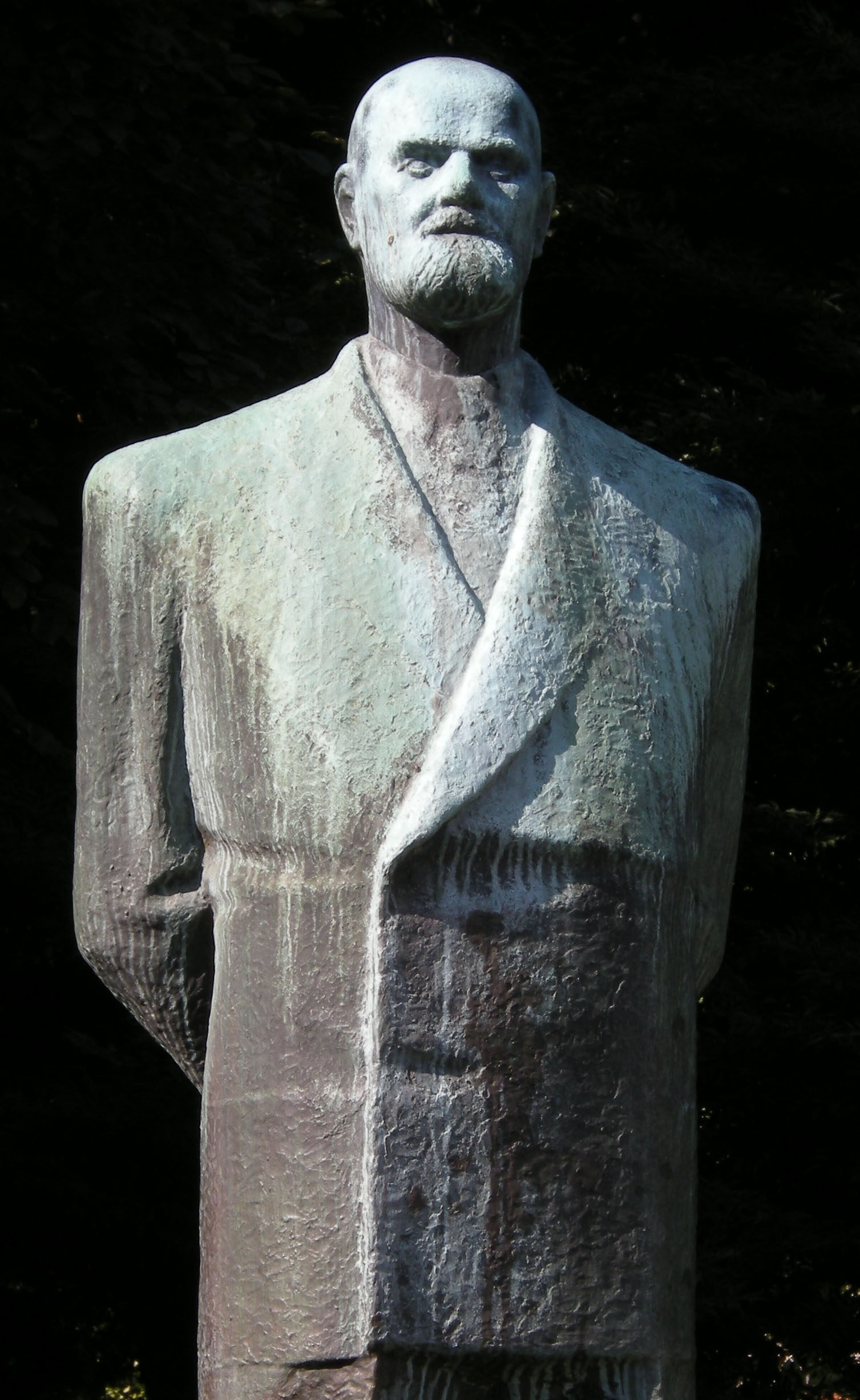 Vienna 2010-09-22 Theodor Körner monument, Rathauspark, detail